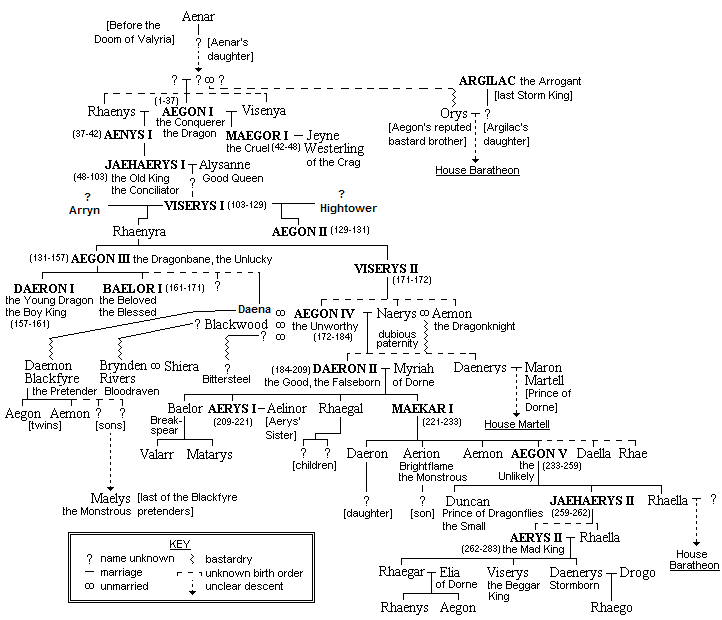 Family tree of House Targaryen, from George R. R. Martin's A Song of Ice and Fire series